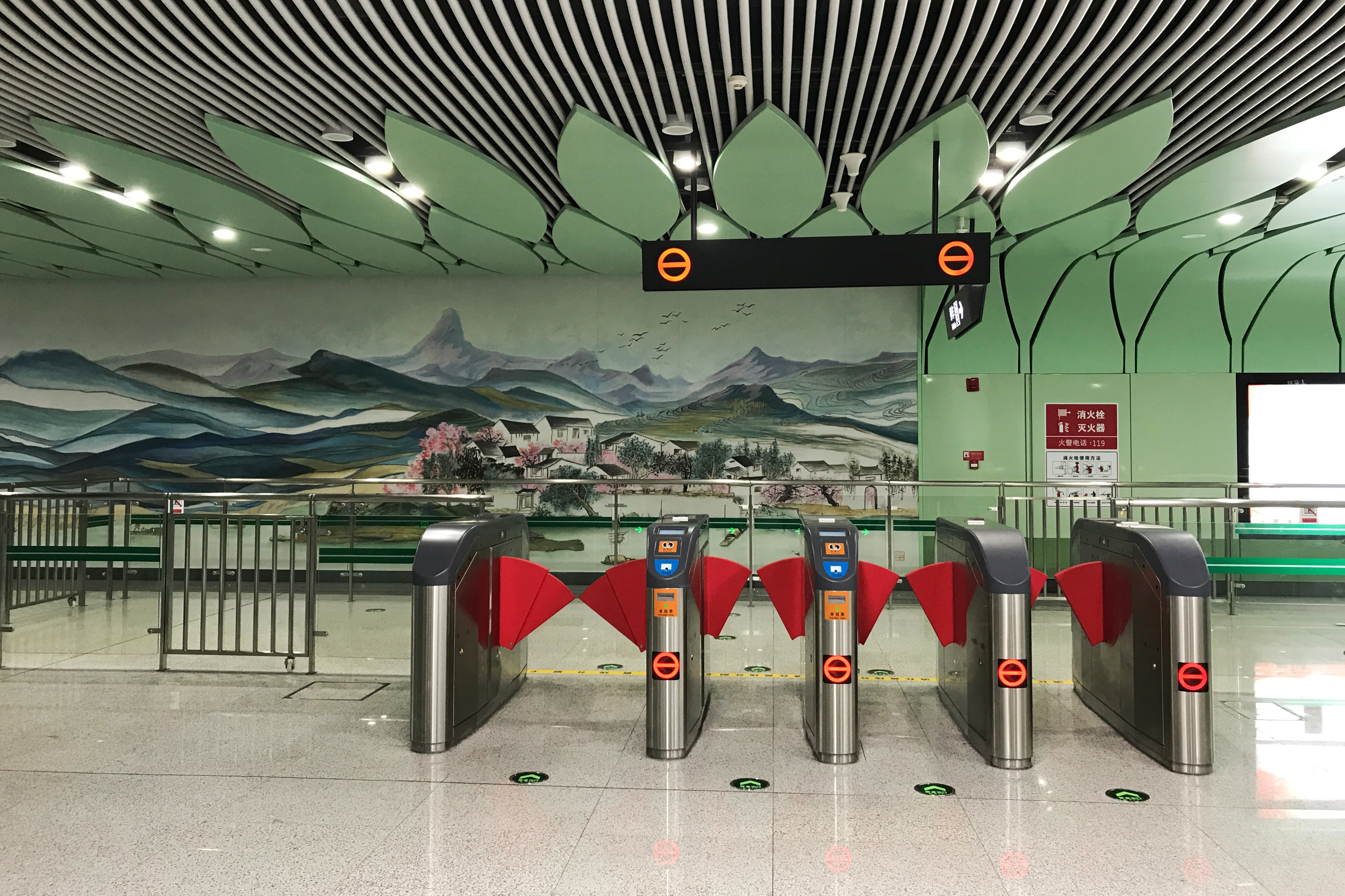 Concourse of Zhongyuan Tower East Station